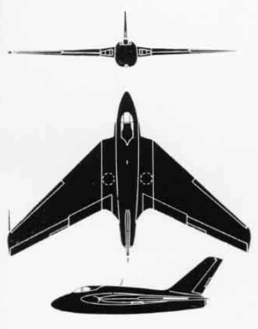 3-side view of the De Havilland DH.108 Swallow.